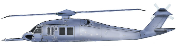 Artist's concept of a modified Sikorsky UH-60 Black Hawk